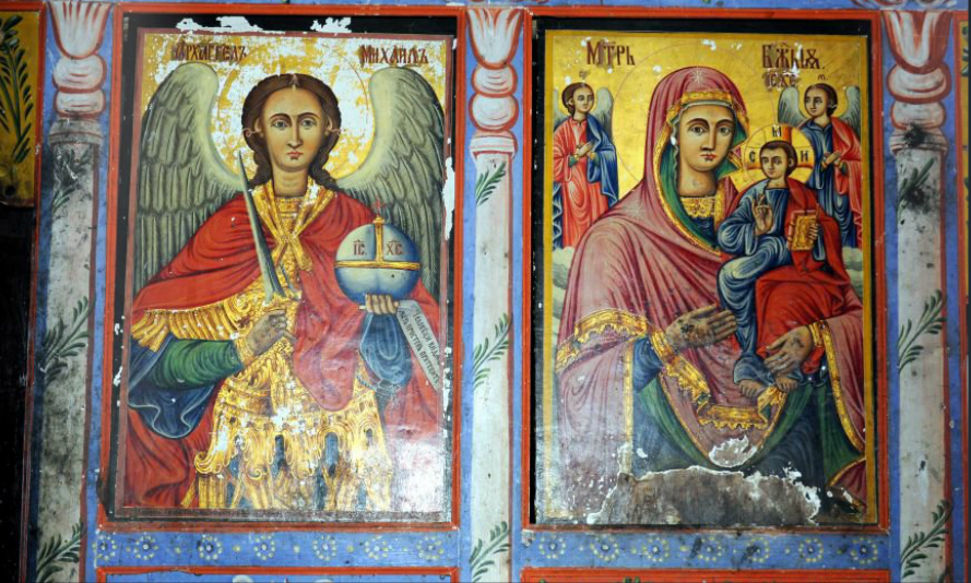 Dolno Dupeni St Michael Church Icons 1894